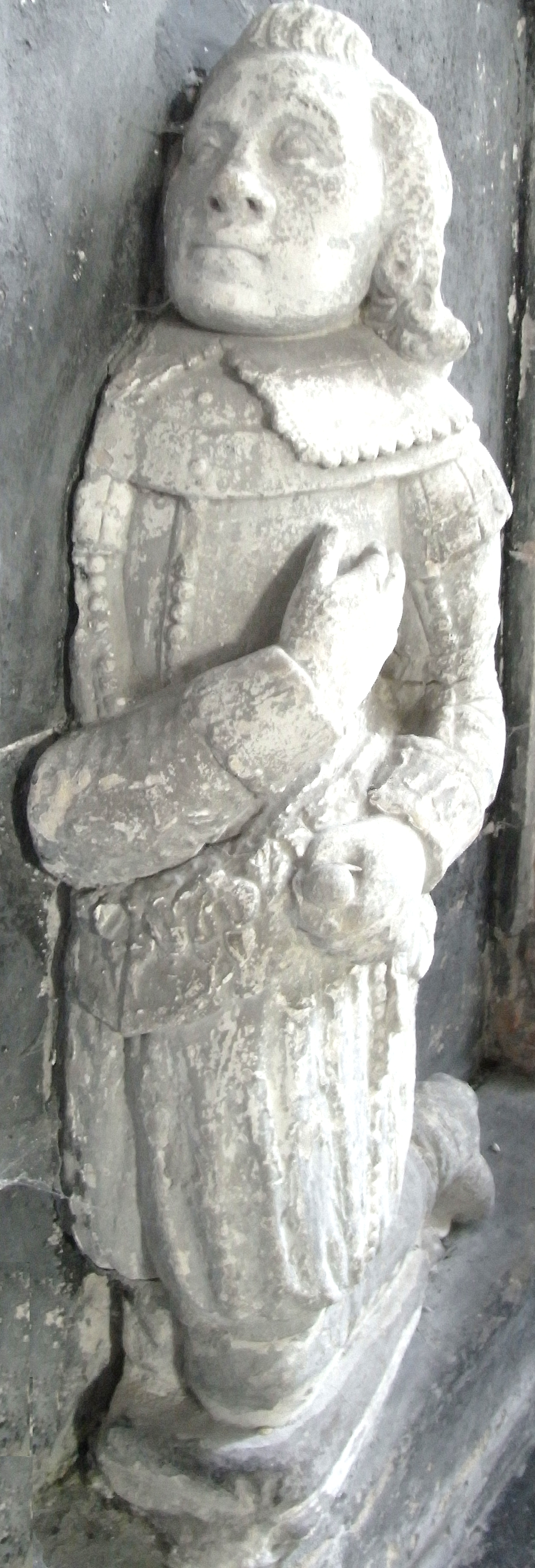 Effigy of John Giffard (1602-1665) of Brightley, shown here as a kneeling mourner aged 23, on the monument erected by himself in 1625 in the Giffard Chapel, Chittlehampton Church, to his grandfather John Gifford (d.1622) of Brightley, whom he succeeded, his own father, Arthur Giffard, having died in 1616.